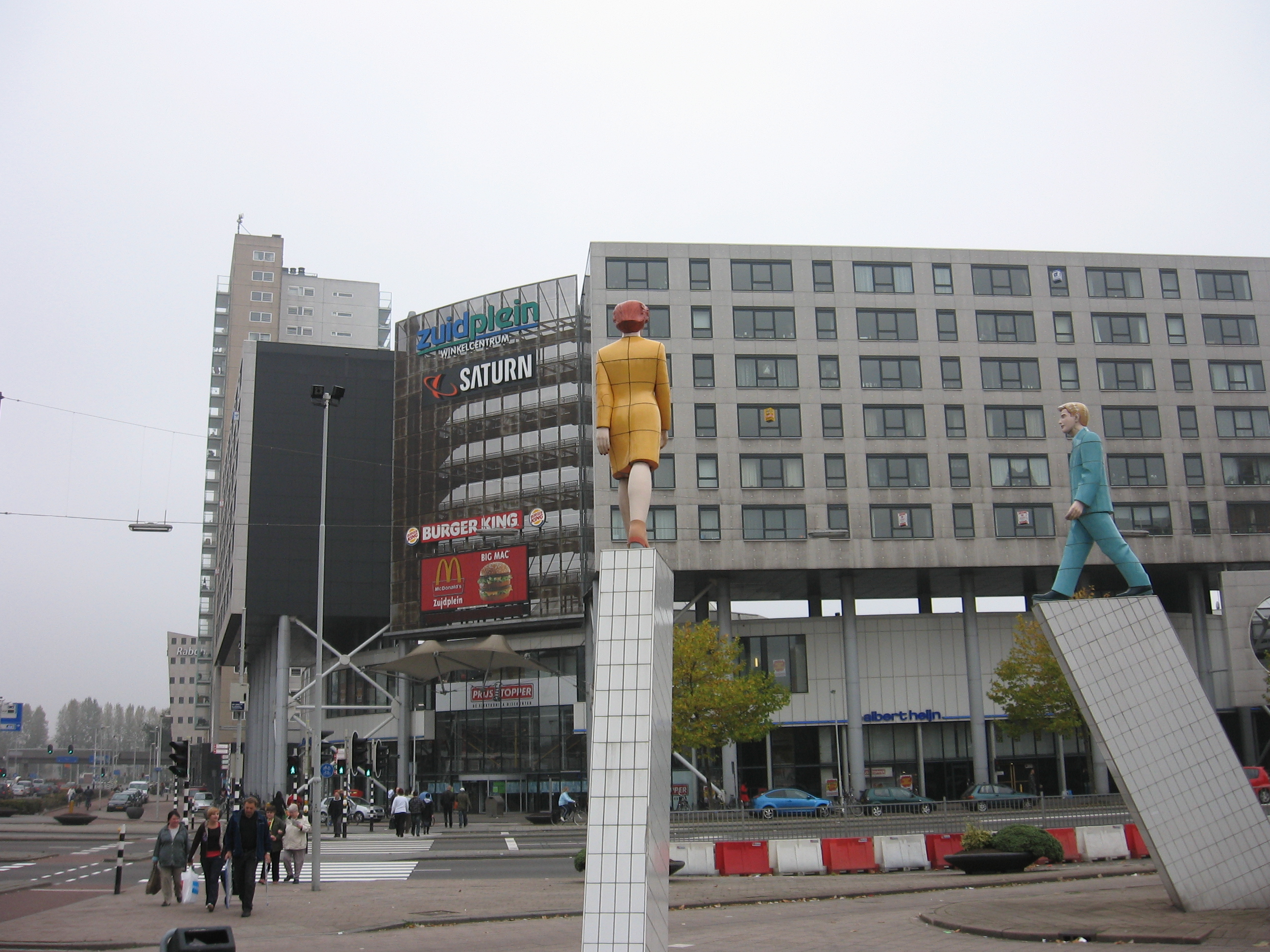 Zuidplein